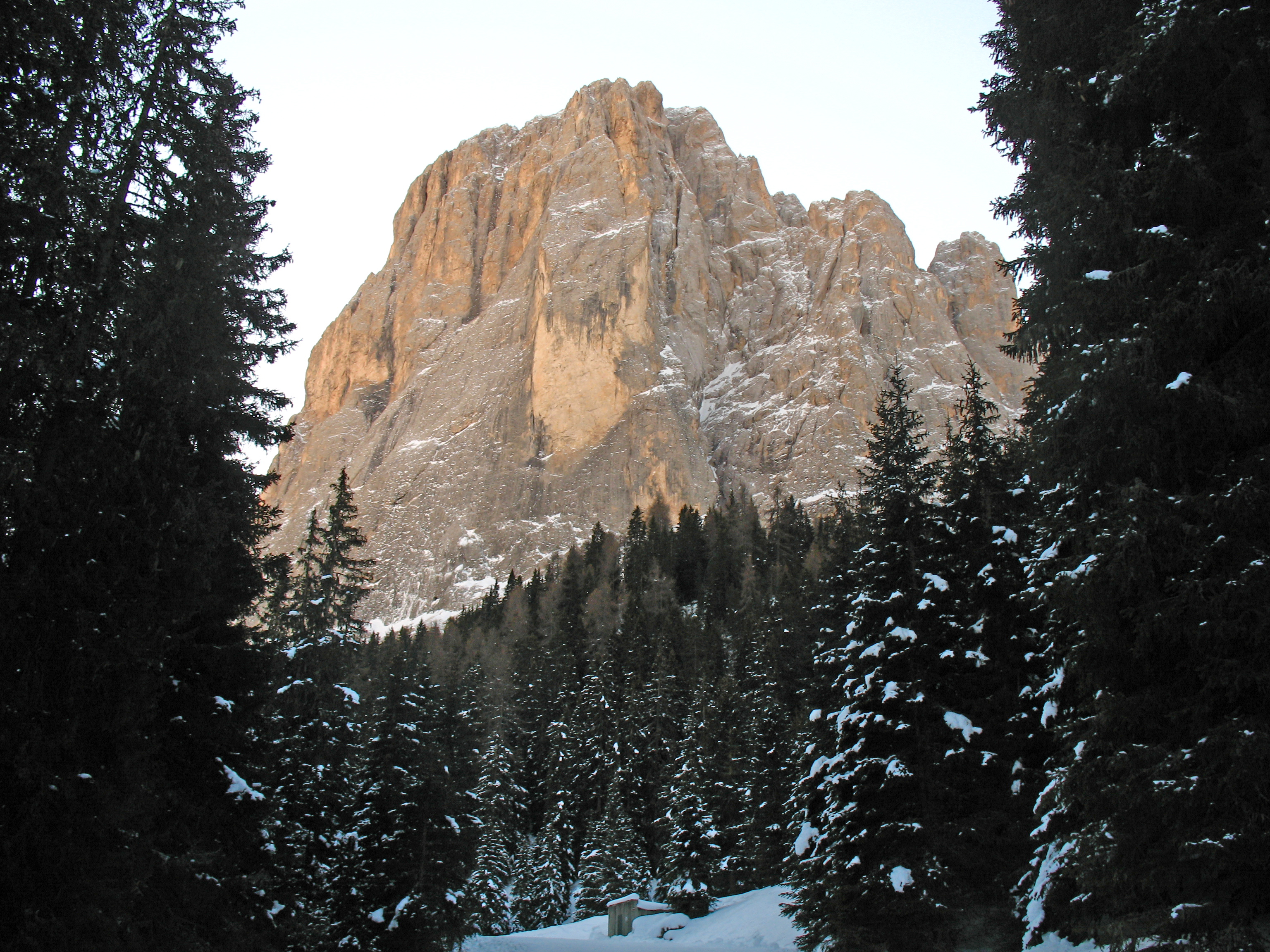 On the way to Monte Pana in Val Gardena - South Tyrol. The towers of the Saslonch.